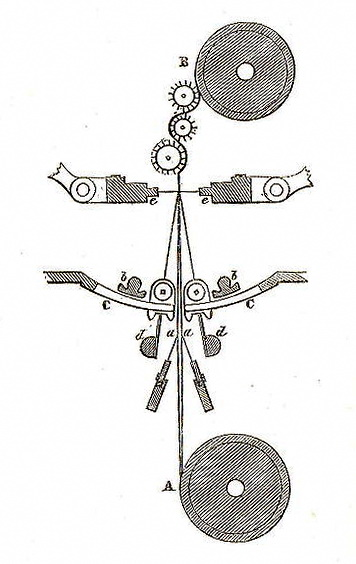 Bobbinet framework A- Warp beam B- Lace take up roller C- Represents the combs or guides, with two brass-bobbins in their carriers. There were two as the technology could not produce a brass-bobbin 1/20inch (0.05) thick but 1/10 in (0.10) was do-able, so two ends shared one comb. The combs in were integral to the front comb bar and rear comb bar, which could shog 1 thread space sideways. The bobbins were propelled by front driver bars and back driver bars which were above the comb bar.(b) Text from Earnshaw 1986, p=70